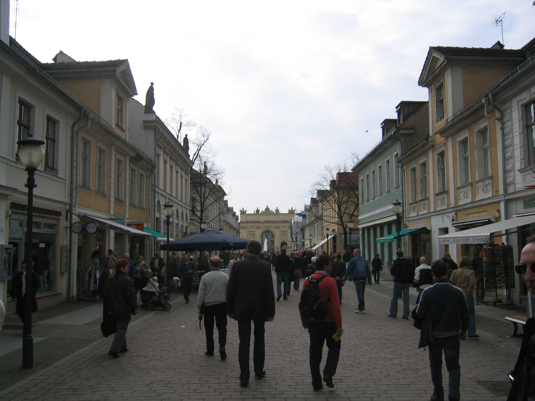 Brandenburger Straße in Potsdam, Brandenburg, Germany. Photo taken by Alan Ford, 2006-04-23.